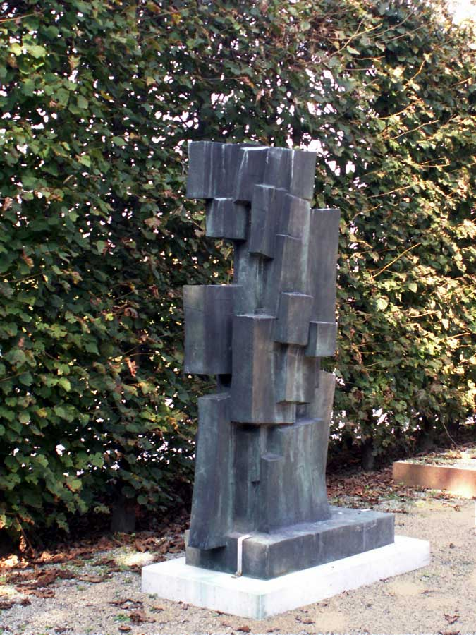 Österreichischer Skulpturenpark, Fritz Wotruba, unknown sculpture